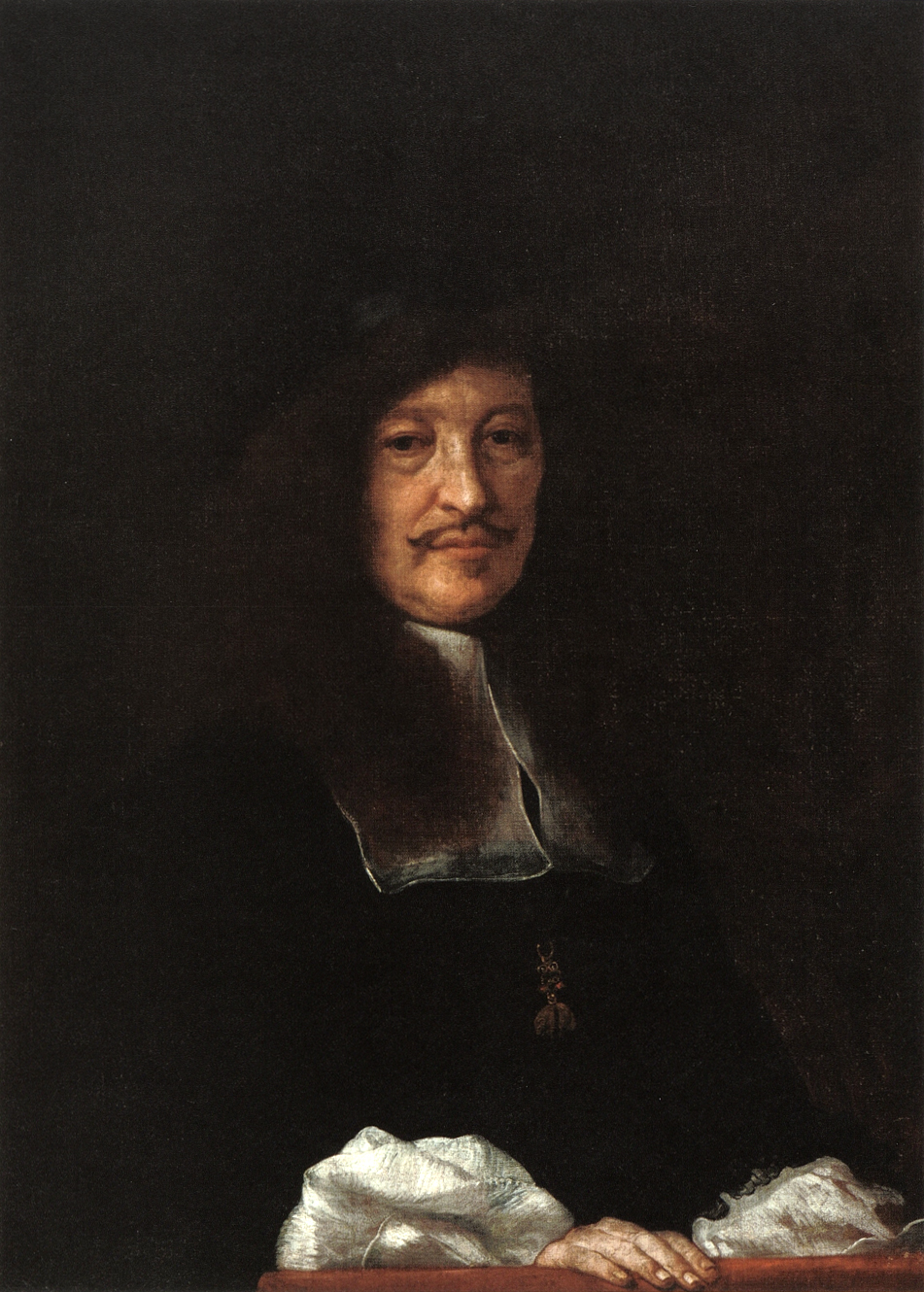 Jan Hartvík Count of Nostic-Rieneck (1610–1683)